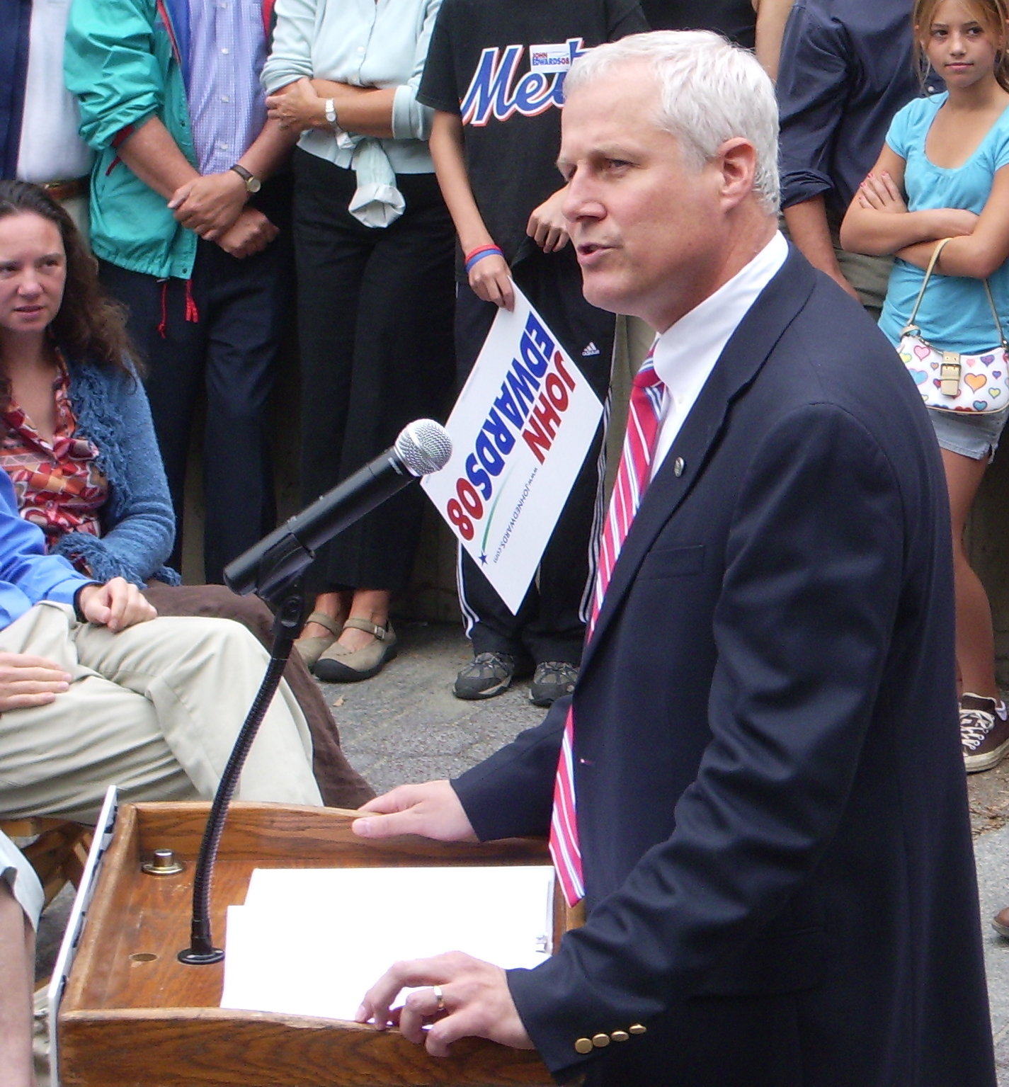 Jay C. Buckey, former astronaut, current candidate for the U.S. Senate from New Hampshire, introducing John Edwards and Elizabeth Edwards in Hanover, New Hampshire